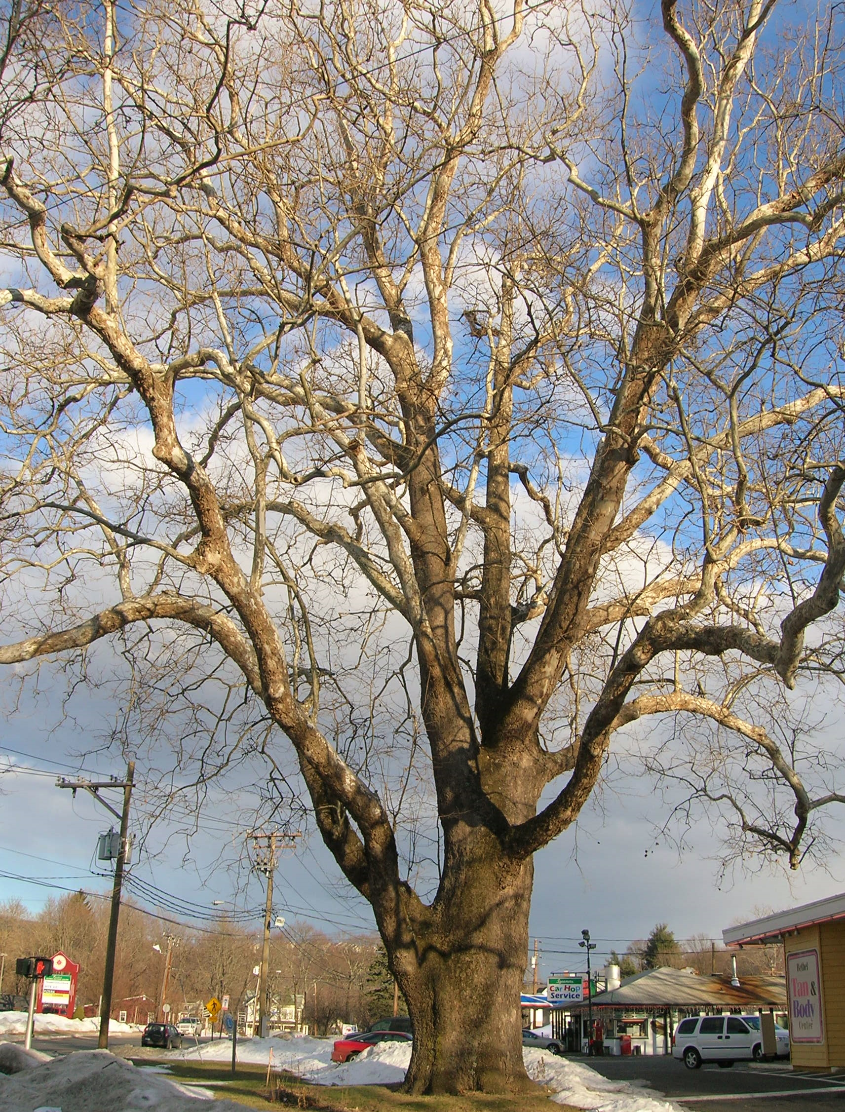 Photo of sycamore tree in Bethel, Connecticut, taken January 5, 2011.